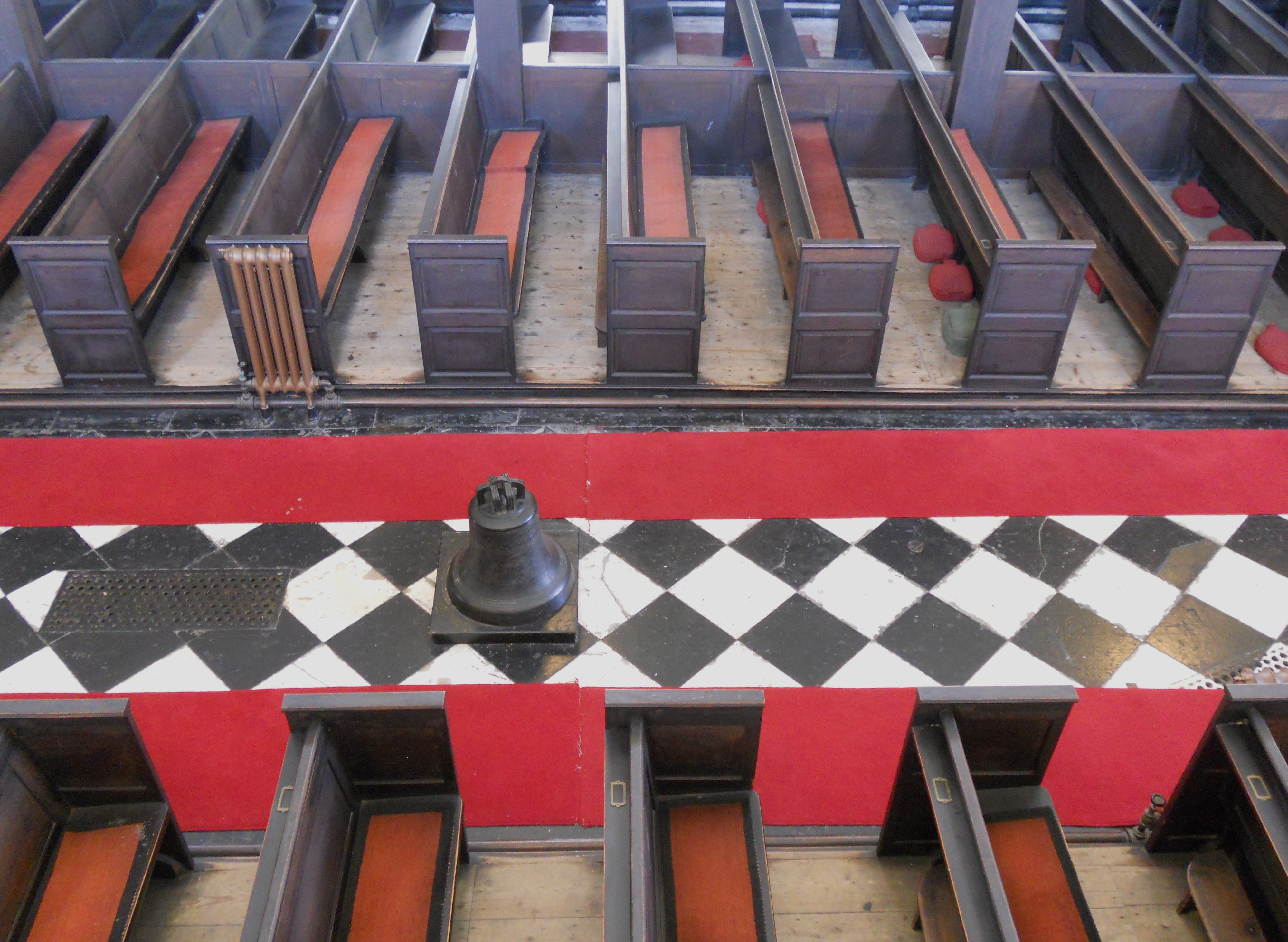 Interior view of St Werburgh's parish church's georgian pews (c1760) with bronze bell dedicated to United Irishman, James Napper Tandy, resting on main centre aisle.